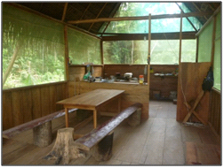 Guest Kitchen